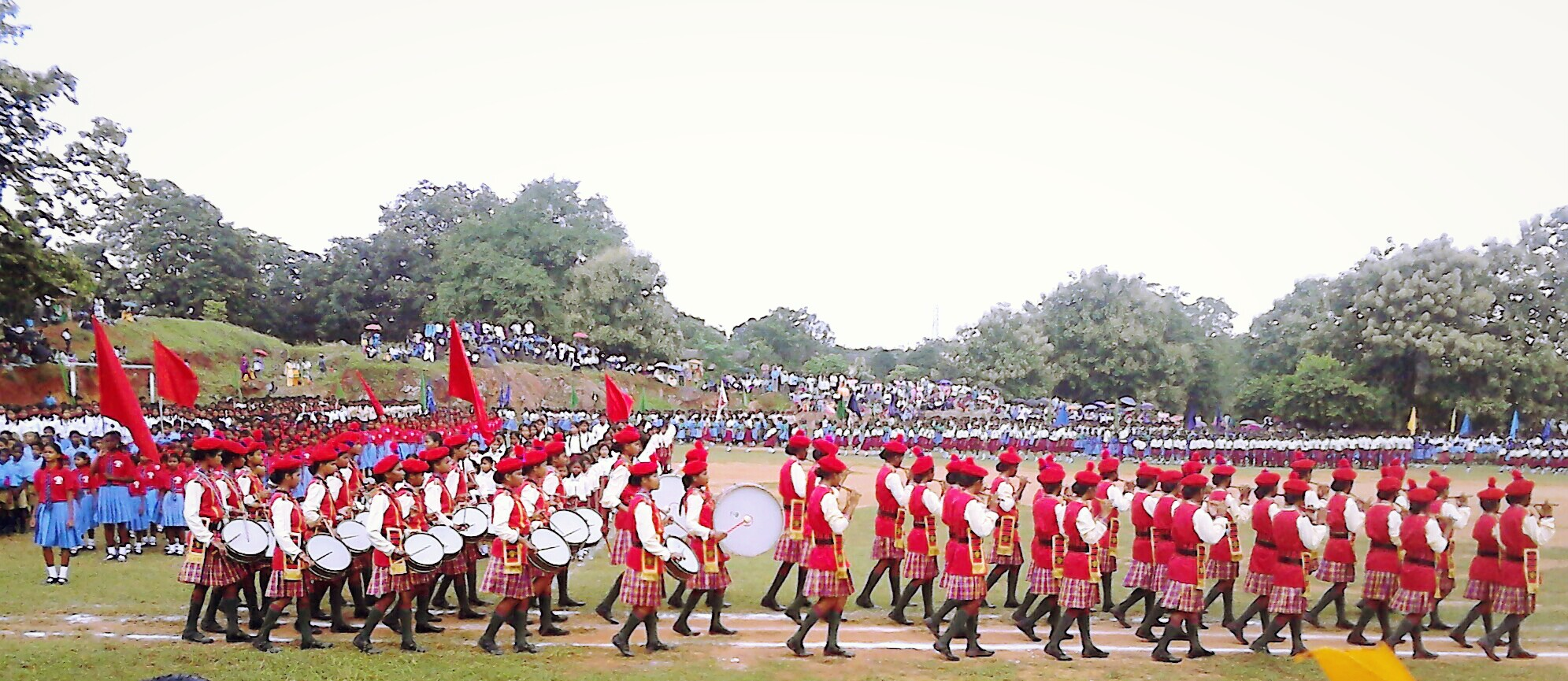 st josephs ground